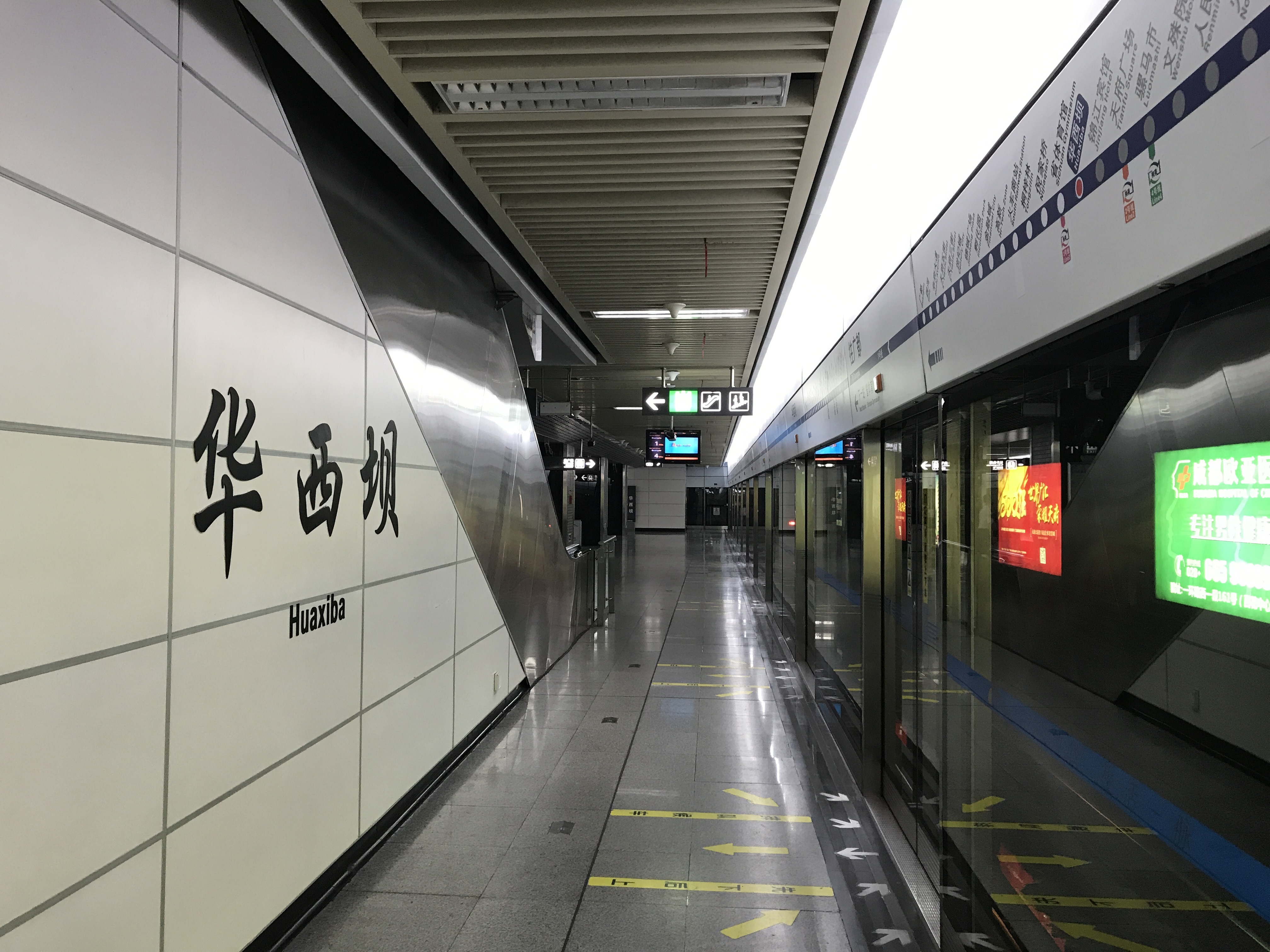 Platform of Huaxiba Station, Chengdu Metro